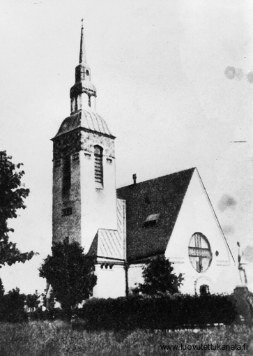 Zelenogorsk (Russia)